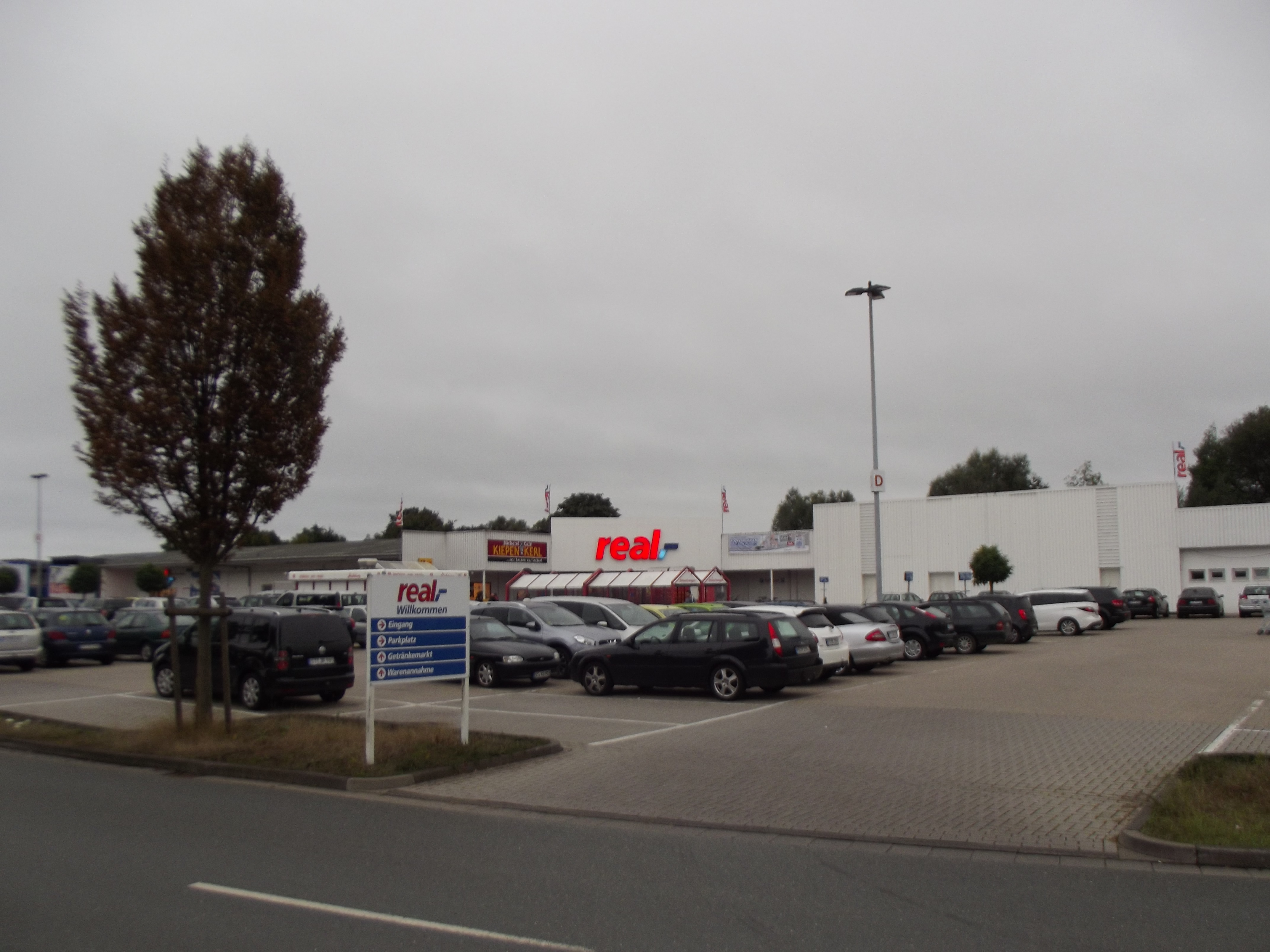 Typical Real supermarket with a huge parking area